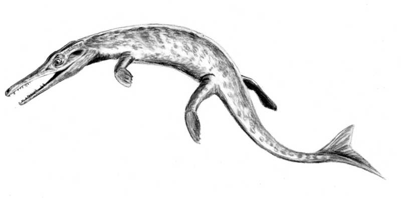 Purranisaurus casamiquelai, pencil drawing. Purranisaurus was a member of the Metriorhynchids famillia, a group of aquatic crocodilians that lived in seas of the Jurassic and Cretaceous periods. Their fore-legs were reduced and paddle-like, and unlike their living cousins they lost their osteoderms ("armour scutes").